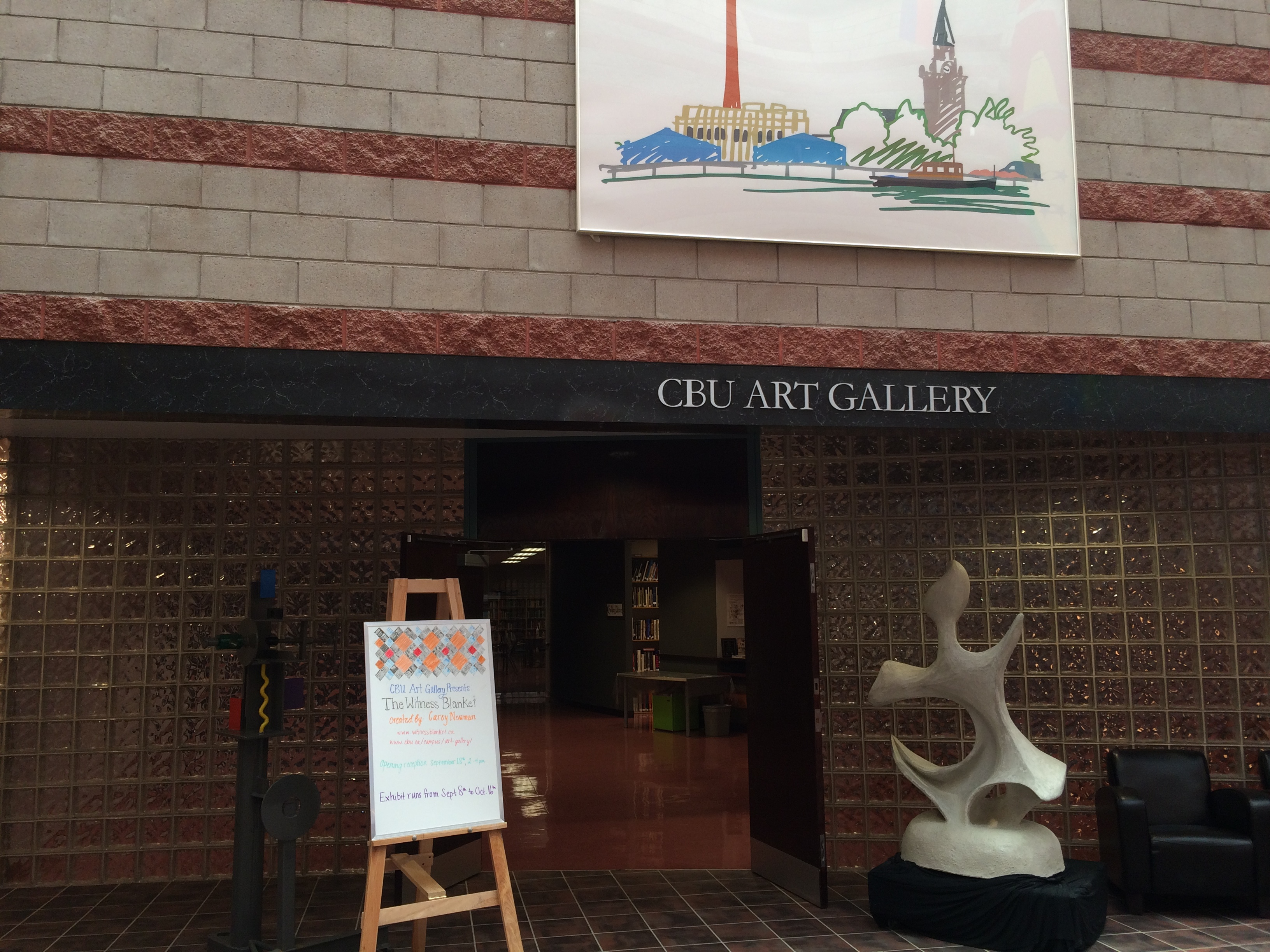 The Centre for Cape Breton Studies features a Seminar Room, a Rotary Music Performance Room, a Digitization Lab, and the Folklore/Ethnomusicology Department.